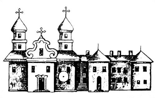 Bernardin Cloister in Połacak